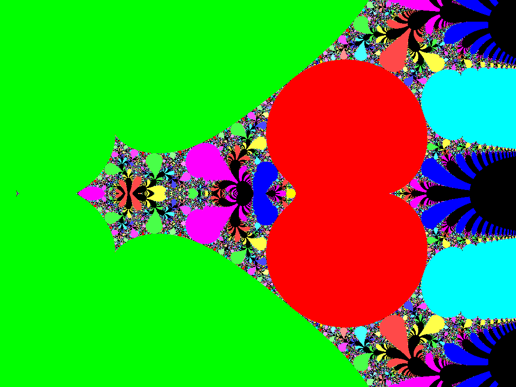 Tetration by period. This is a fractal of tetration showing the points in the complex plane that are periodic under iteration. The red kidney shaped area has a period of one and is the area of convergence of the power tower function. The small yellow circle in the depression to the left of the red area is period two and contain zero. The large green area is period three. This fractal is similar to the Mandelbrot fractal except it is an exponential map instead of a quadratic map. The fractal was created using Fractint and shows from -4.5 to 3.5 of the real axis and from –3i to 3i on the imaginary axis.